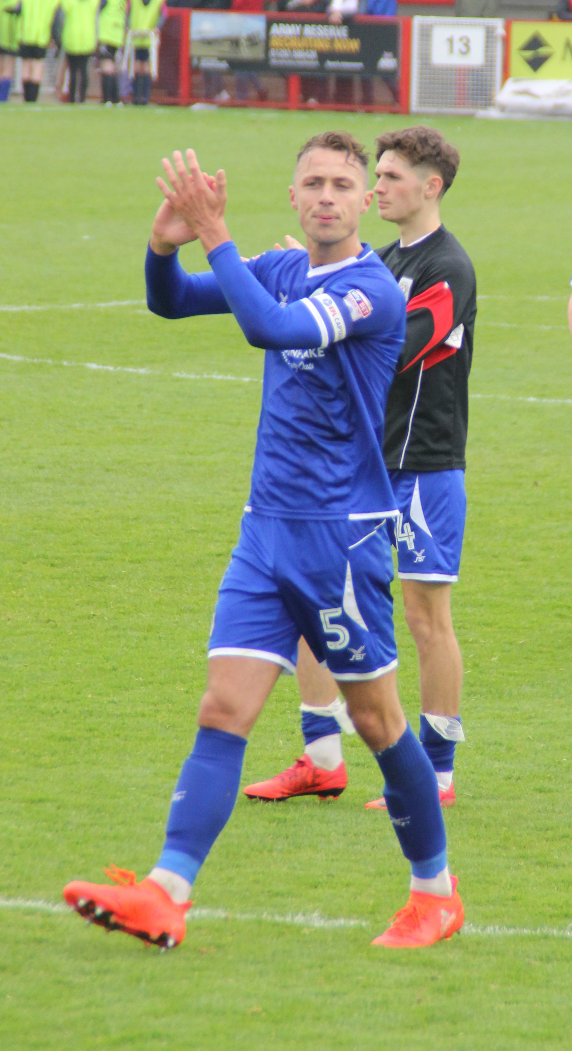 George Ray applauds Crewe fans at Crawley Town, 28 April 2018